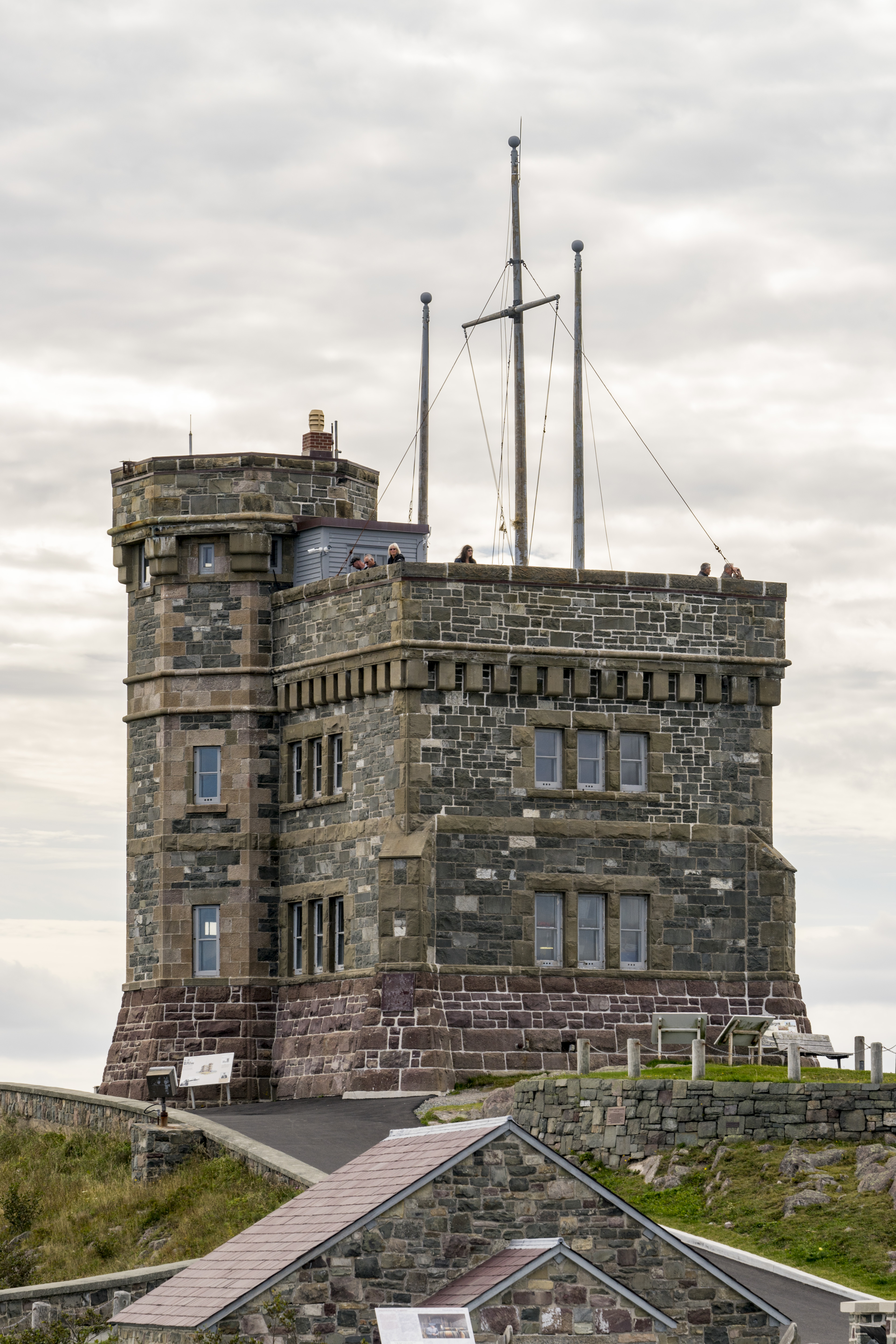 Cabot tower atop Signal Hill, North facing side.